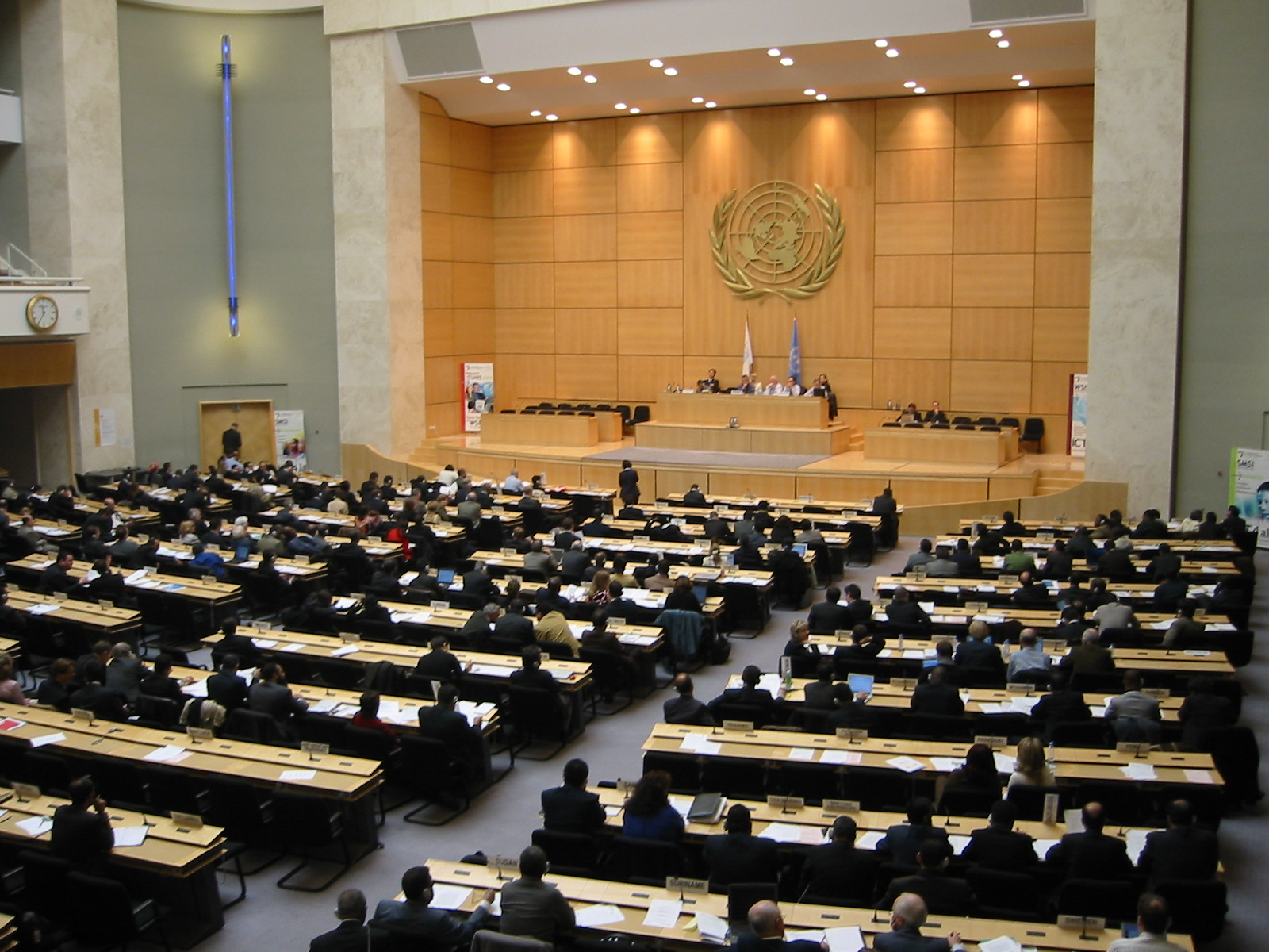 Second preliminary session of the World Summit Information Society, plenary meeting, 18-25 February 2005, UNO building, Geneva, Switzerland.